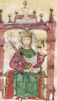 Leovigild